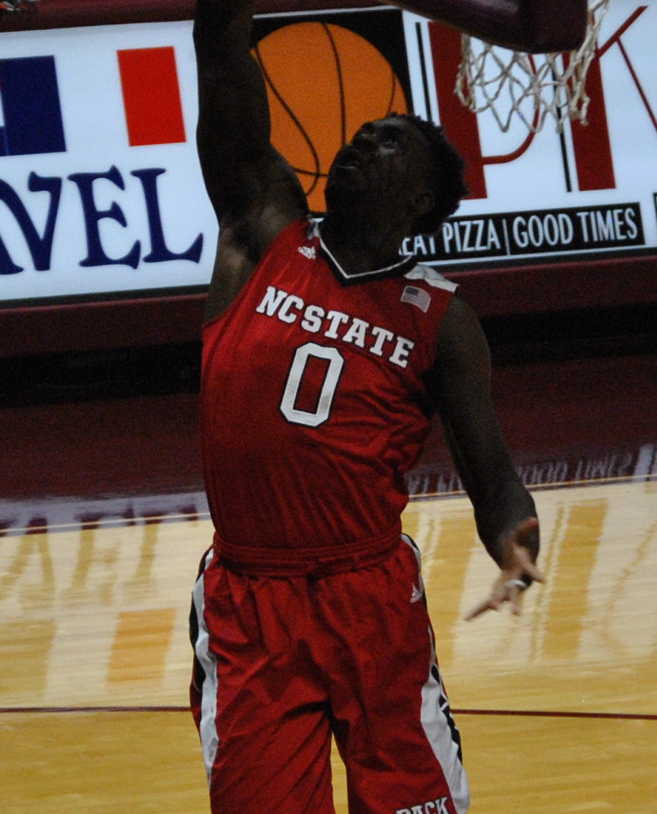 Abdul-Malik Abu get the easy layup for the Wolfpack